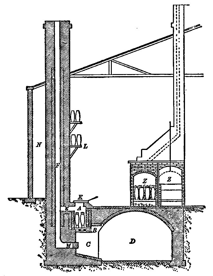 Section of a furnace used for crucible steel.